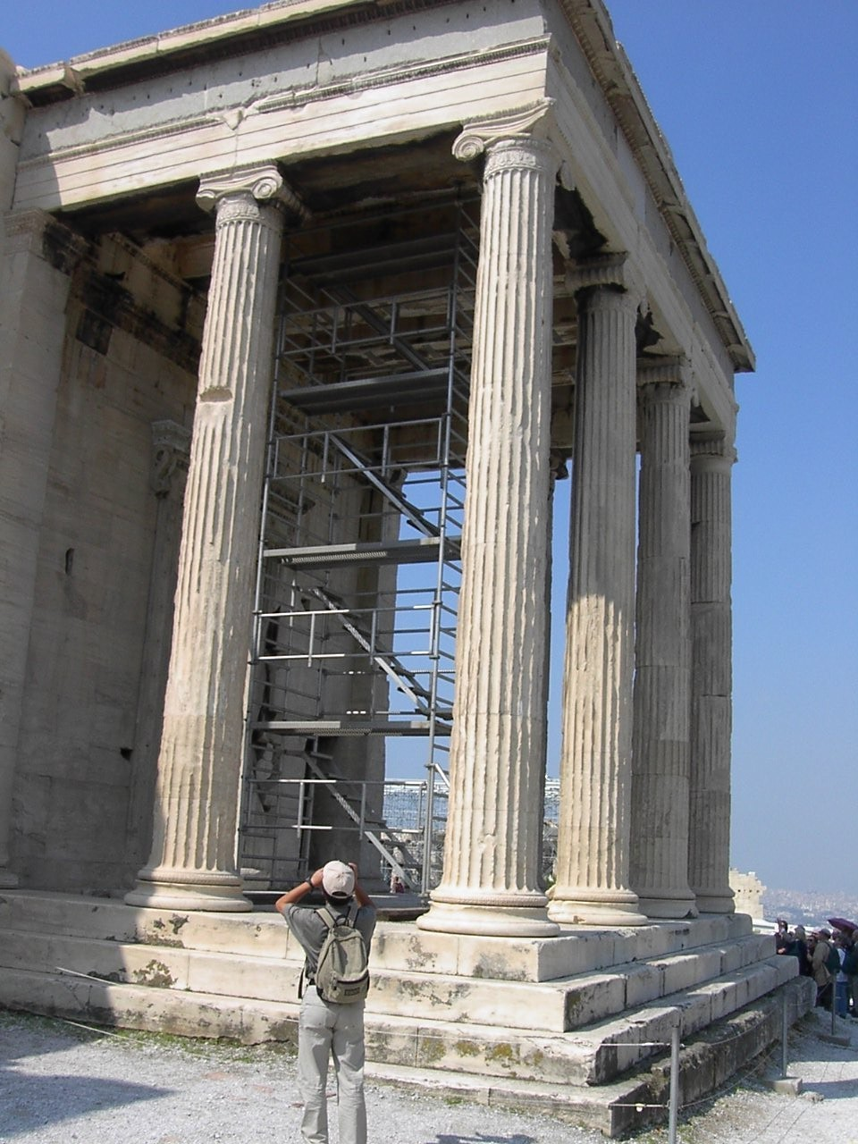 The Erechtheum in Athens, showing columns with Ionic capitals